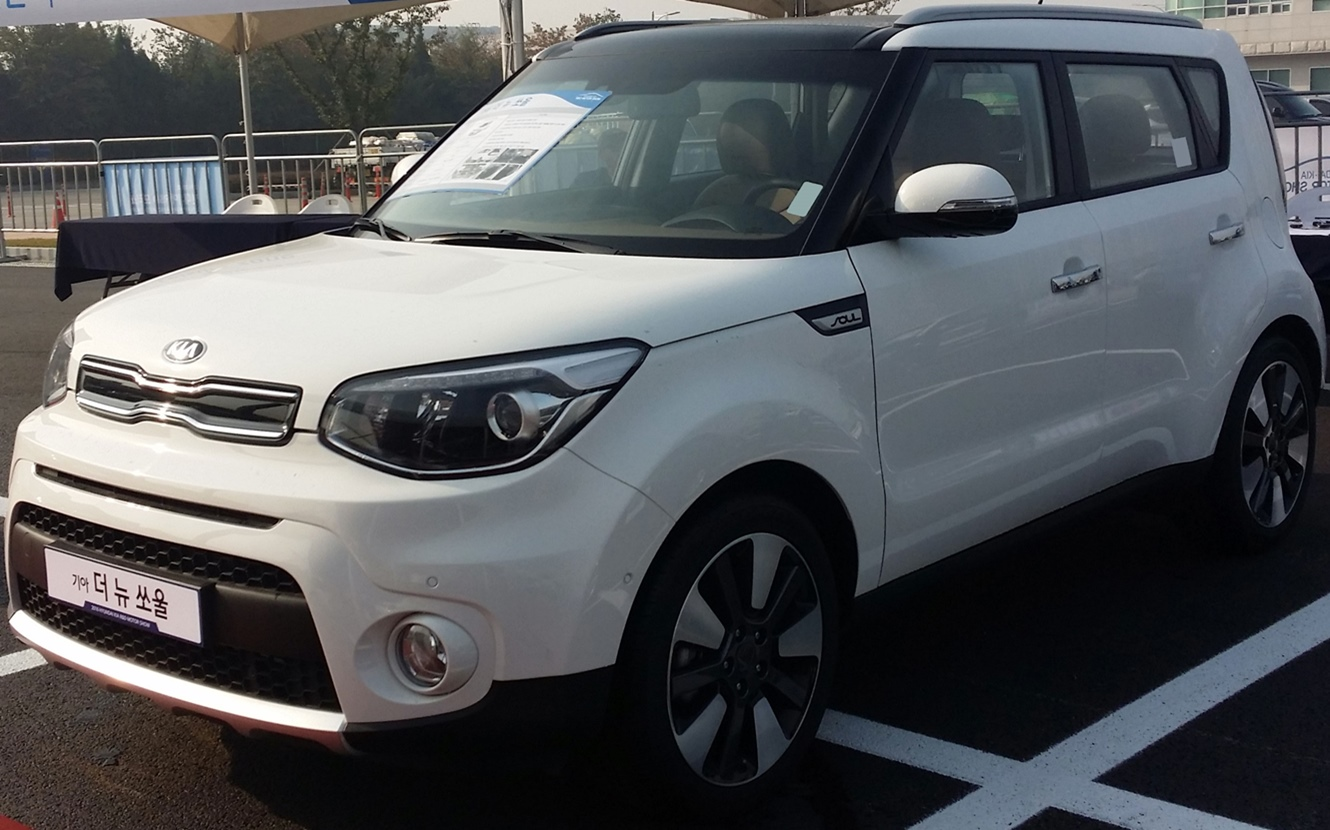 Kia The New Soul